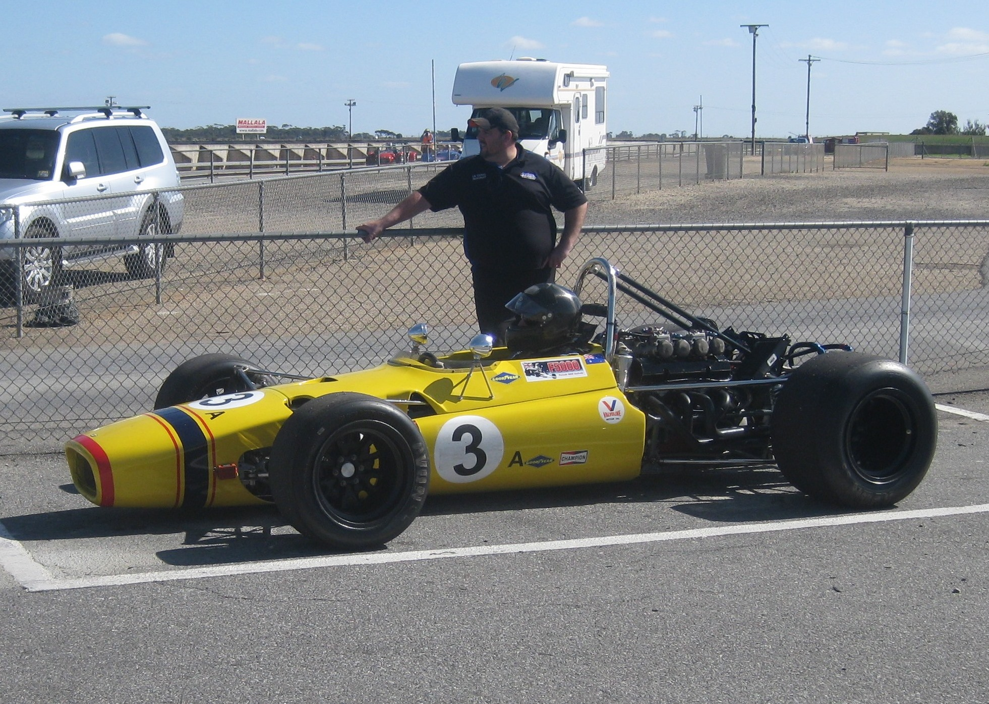 Lola T140 of John Bryant at Mallala Motor Sport Park on 19 April 2014.